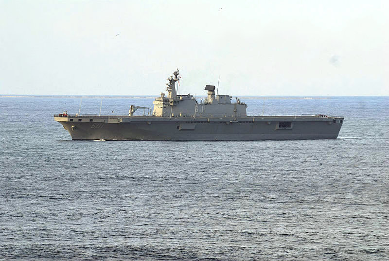 South Korea navy amphibious ship, ROKS Dokdo (LPH 6111)